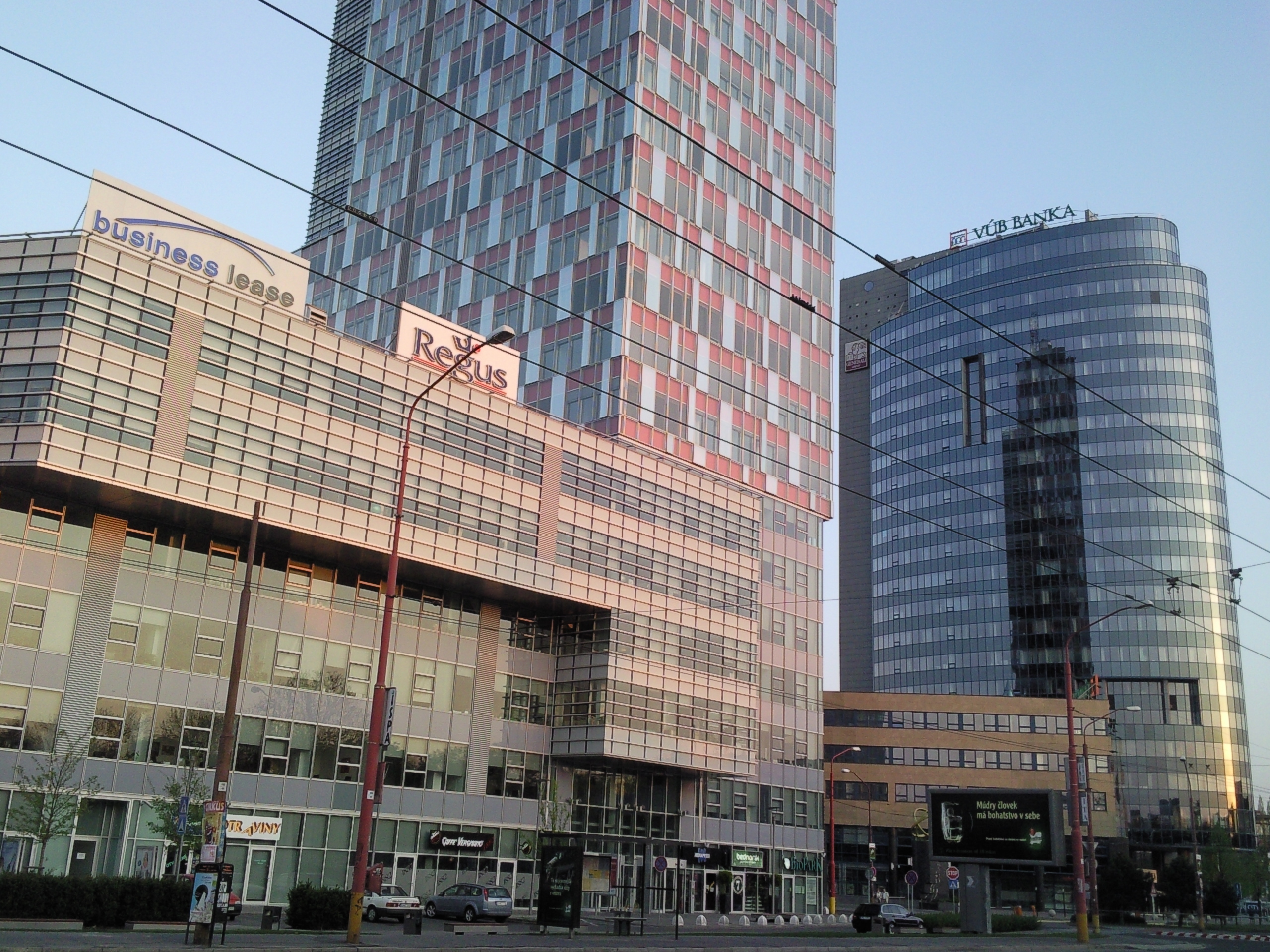 High-rises in Bratislava at Karadžičoca street